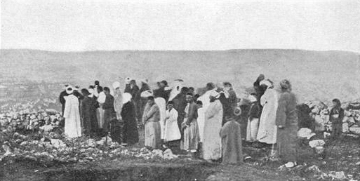 Samaritans at prayer; Courtesy of the 1901-1906 Jewish Encyclopedia